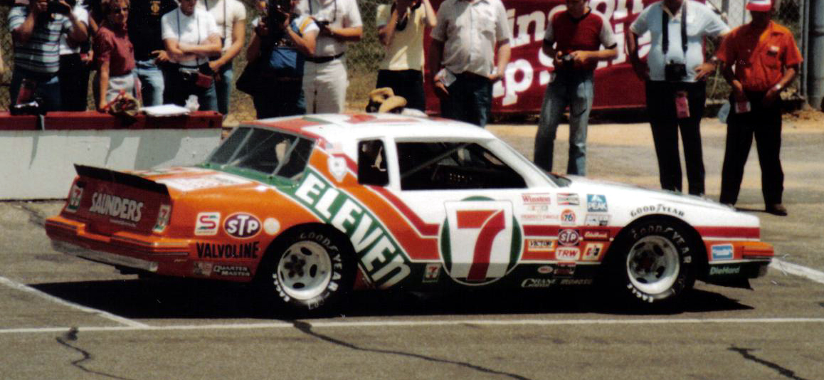 The Petty Enterprises Pontiac #7 of Kyle Petty. Kyle finished 13th in the 1983 Van Scoy 500.